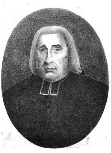 Claudi Peiròt's portrait